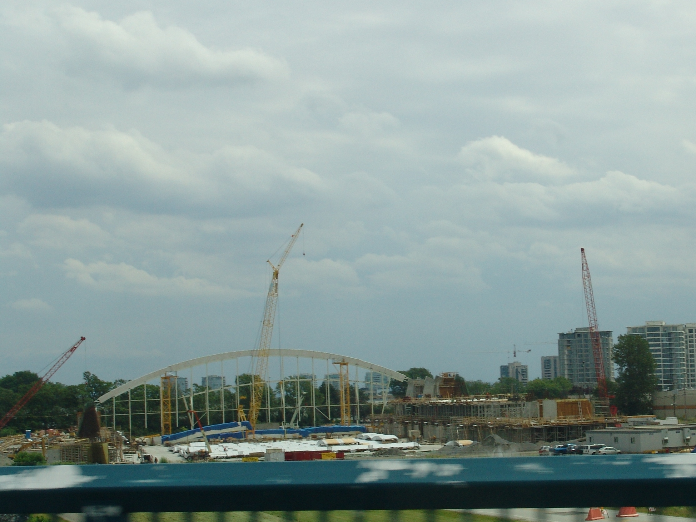 Oval in Richmond Vancouver